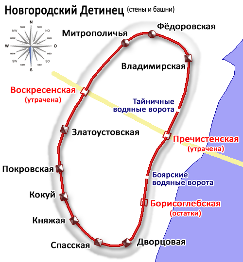 Novgorod detinec